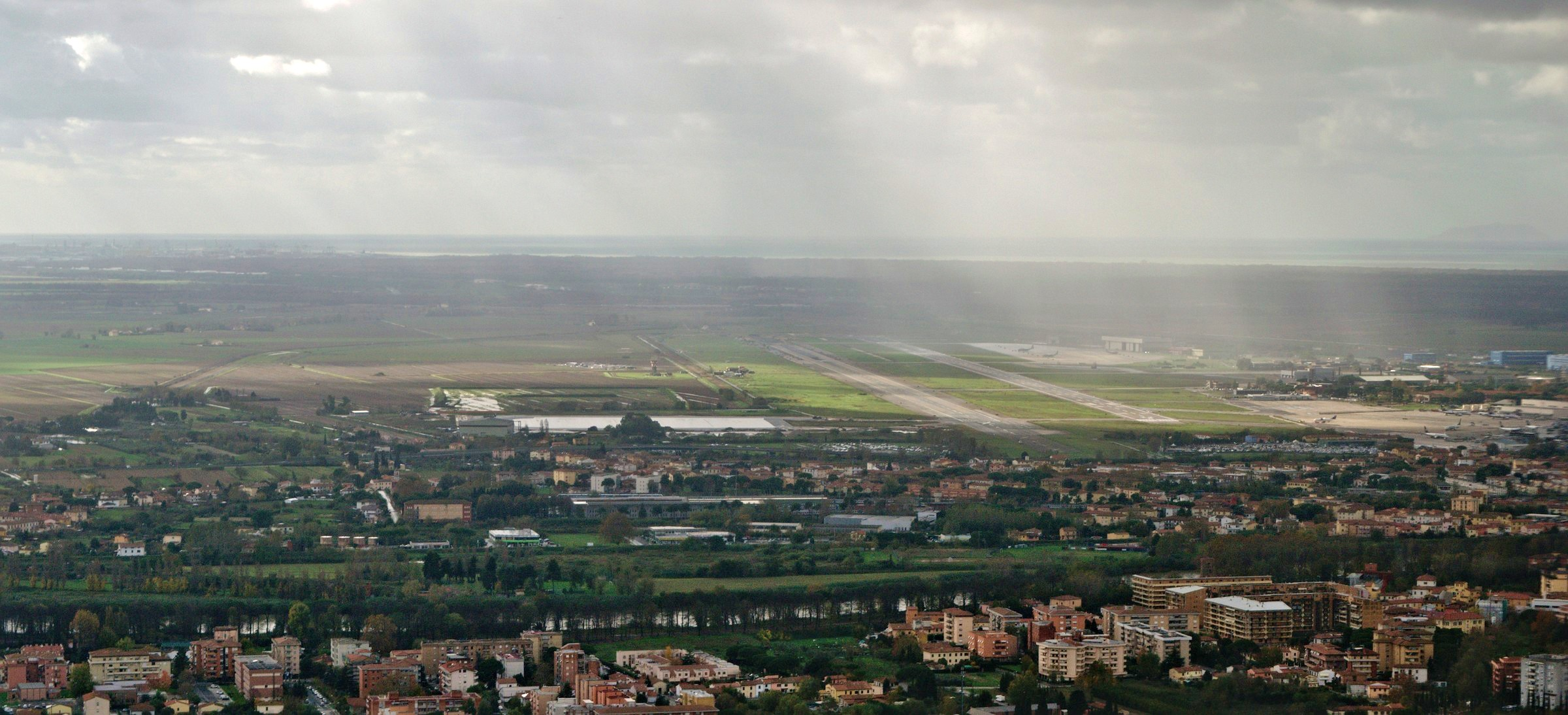 Aerial view of Pisa San Giusto Airport, looking South-West. The island of Gorgona can be seen to the right hand side of the image.